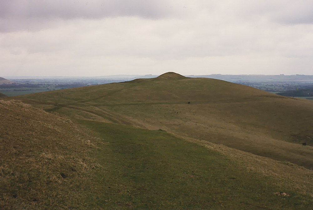 Adam's Grave